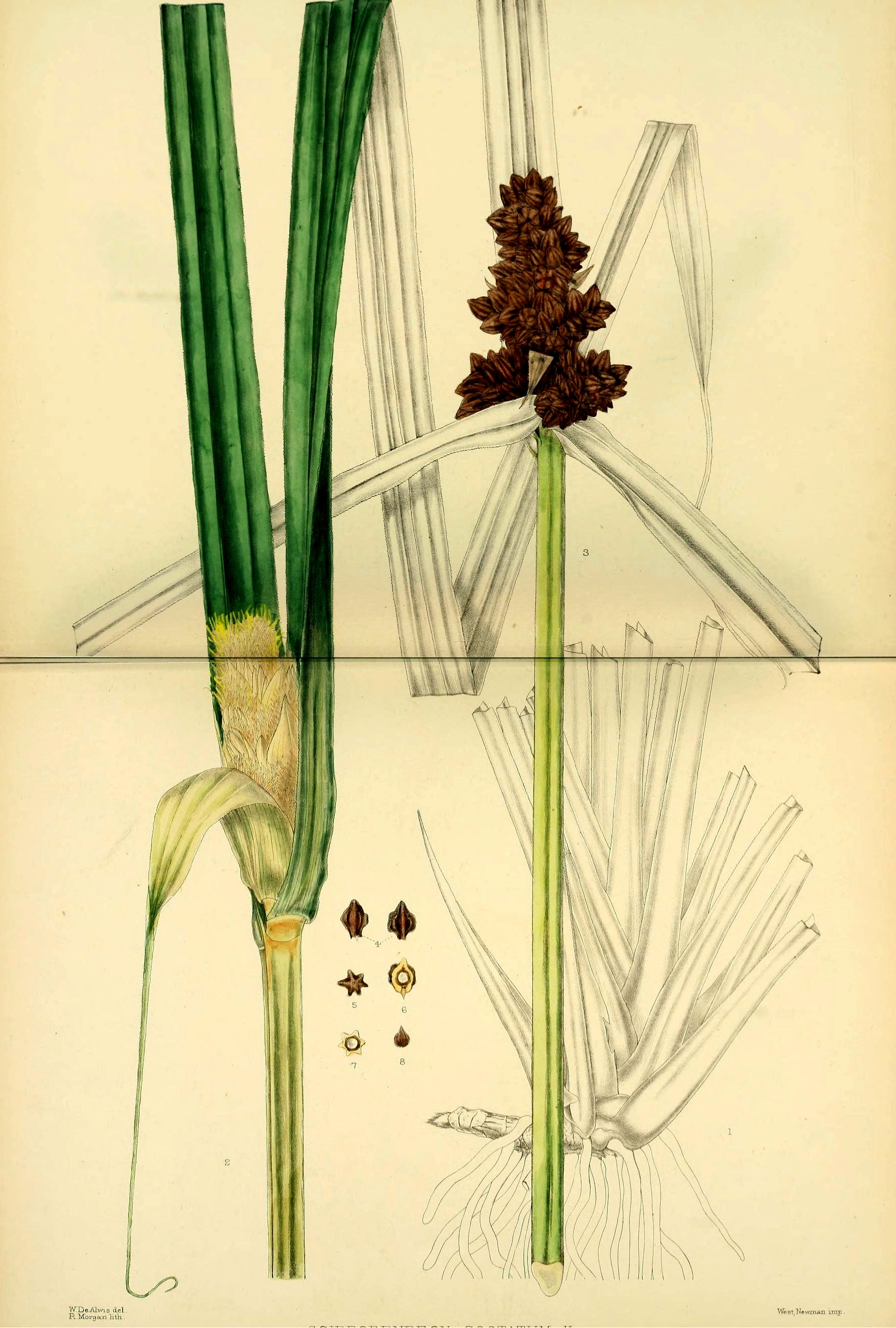 Scirpodendron ghaeri, illustration from "A hand-book to the flora of Ceylon : containing descriptions of all the species of flowering plants indigenous to the island, and notes on their history, distribution, and uses : with an atlas of plates illustrating some of the more interesting species." / by Alston, A. H. G.; Hooker, Joseph Dalton; Trimen, Henry / Plate XCVII